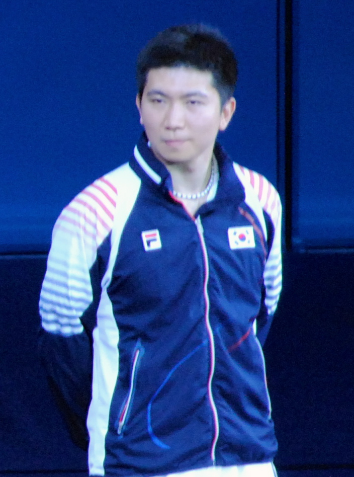 Silver Medalists - South Korea